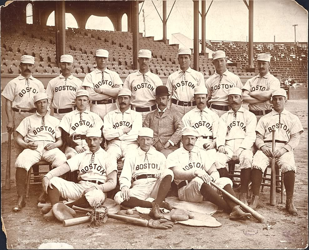 The 1890 Boston Beaneaters team photoTop row: L-R: James "Chippy" McGarr (IF), Harry Staley (P), Patsy Donovan (CF), Charles Ganzel (utility), William Joyce (3B), William Daley (P), Tommy Tucker (1B)Middle row: L-R: Kid Nichols (P), Herman Long (SS), Charles Bennett (C), Frank Selee (Mgr.), John Clarkson (P), Jim Whitney (P), Steve Brodie (RF)Bottom row: L-R: Bobby Lowe (SS/CF/3B), Paul Revere Radford (utility), Tom Brown (OF)